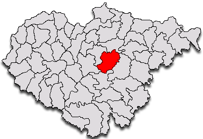 Map Salaj County Romania